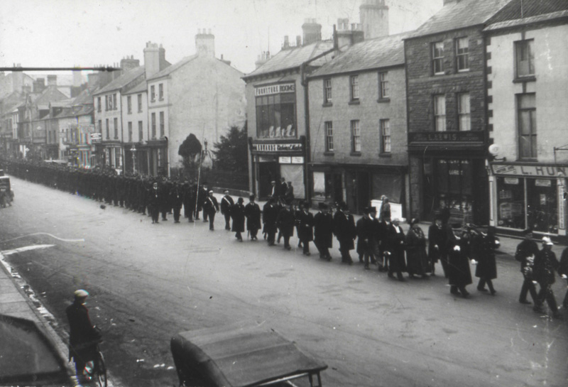 Monnow street in April 1931.A funeral procession for Superintendent W. Bullock with the Mayor, dignitaries, fire brigade and police. Monmouth Museum Identification Number: M361